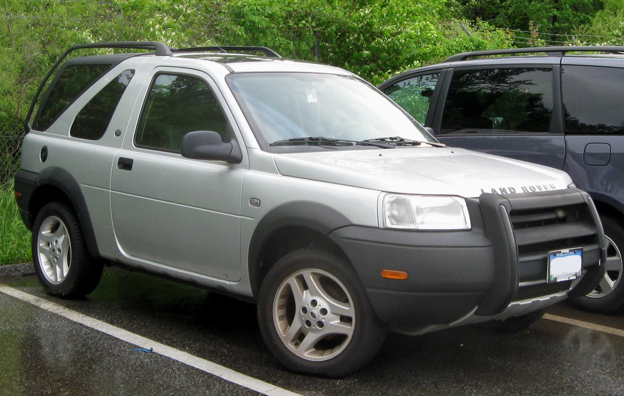 2002-2003 Land Rover Freelander photographed in College Park, Maryland, USA.